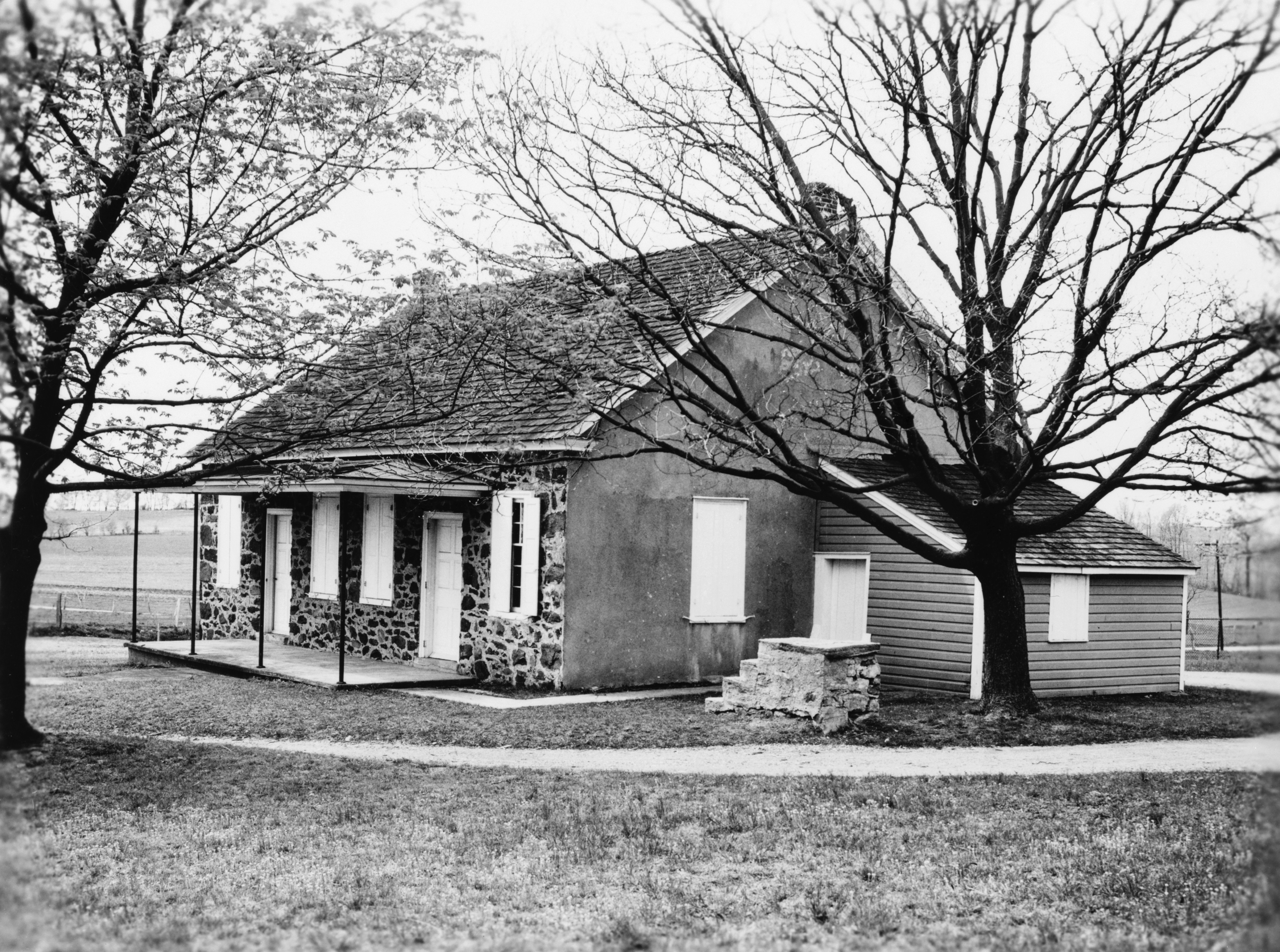 Mill Creek Friends Meetinghouse — a historic Quaker meeting house north of Newark, Delaware. It was built in 1840. In New Castle County, Delaware, about a mile from the Pennsylvania border. Added to the National Register of Historic Places in 1973. Historic American Buildings Survey—HABS image. Place (formerly) call Ketch Corner. White border trimmed off of the LOC photo.